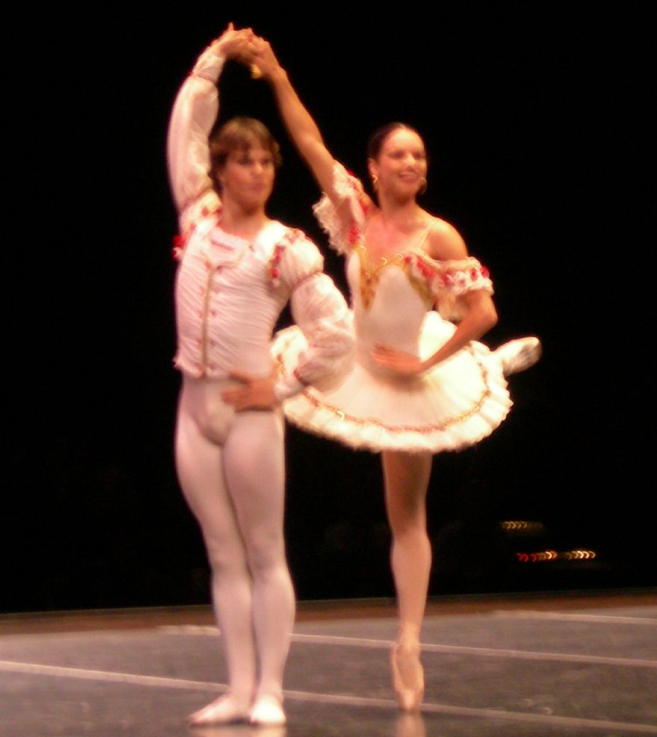 Wedding Pas de deux from Don Quichotte (Act 5) by Marius Petipa